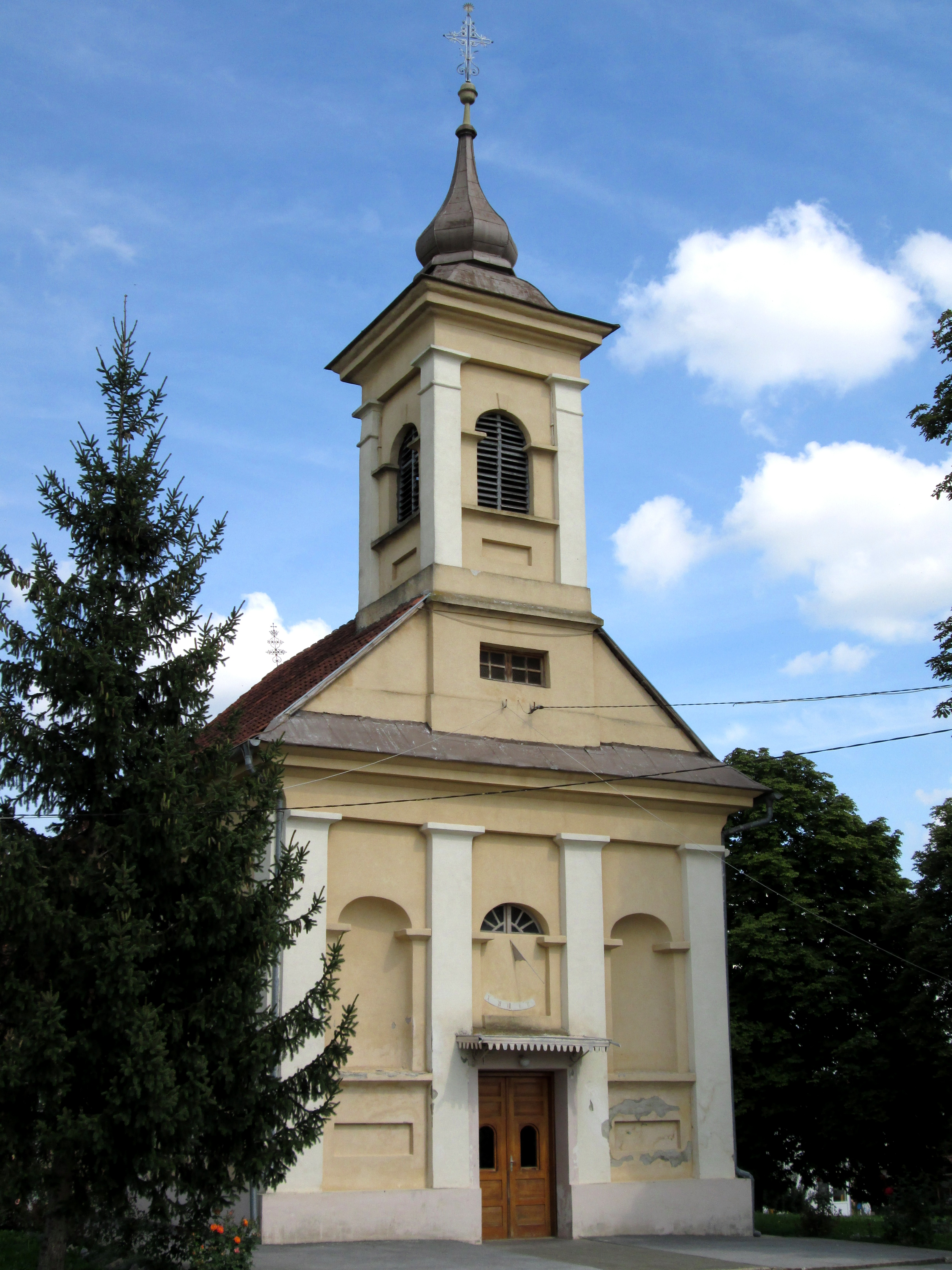 Church of St. Vitus in village of Predavac in Croatia